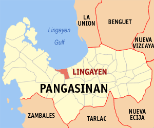 Map of Pangasinan showing the location of Lingayen